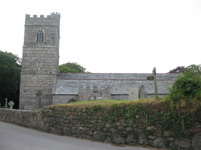 Luxulyan church. A view looking north across the Saints Way towards the church at Luxulyan.